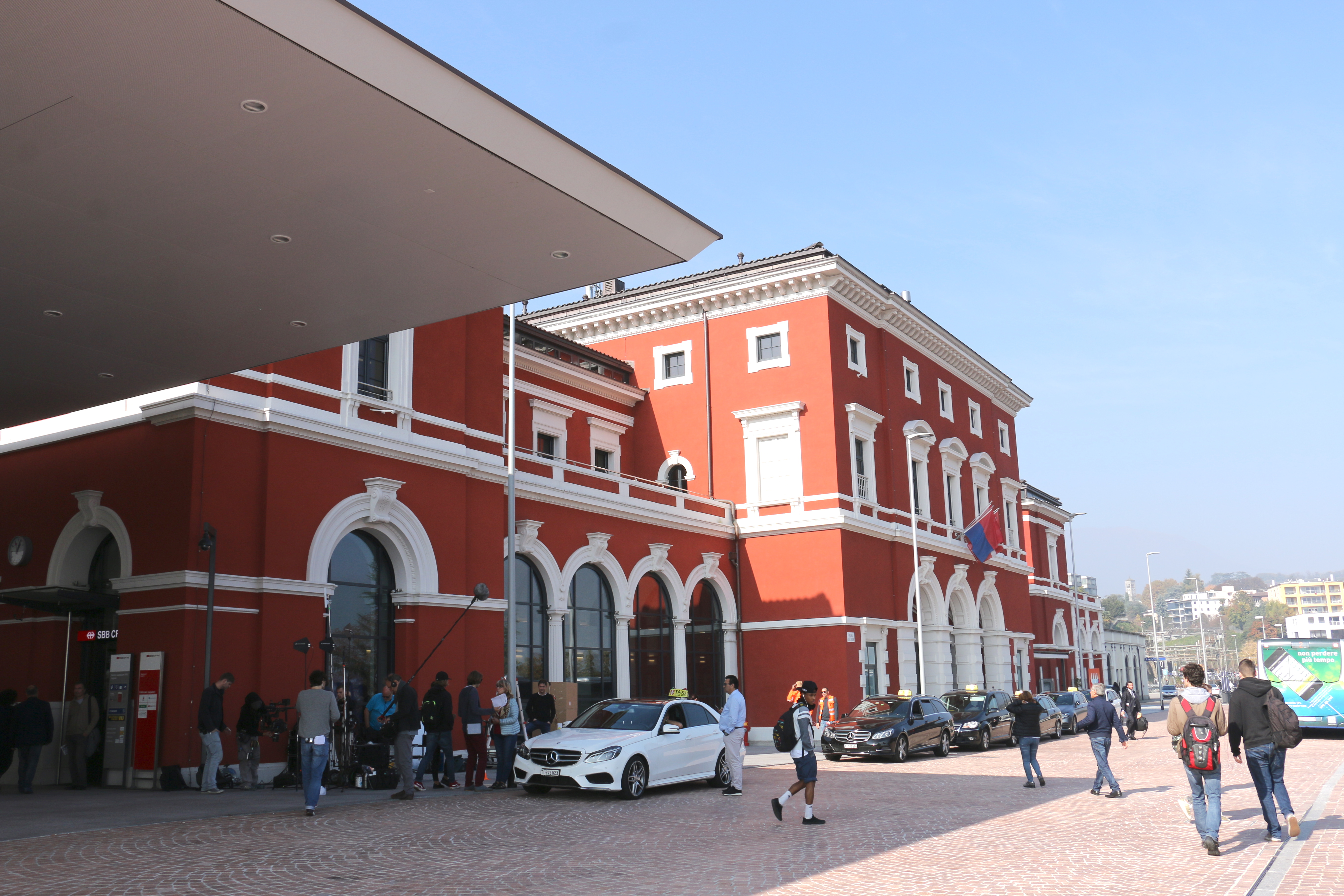 Railway Station Lugano 2017